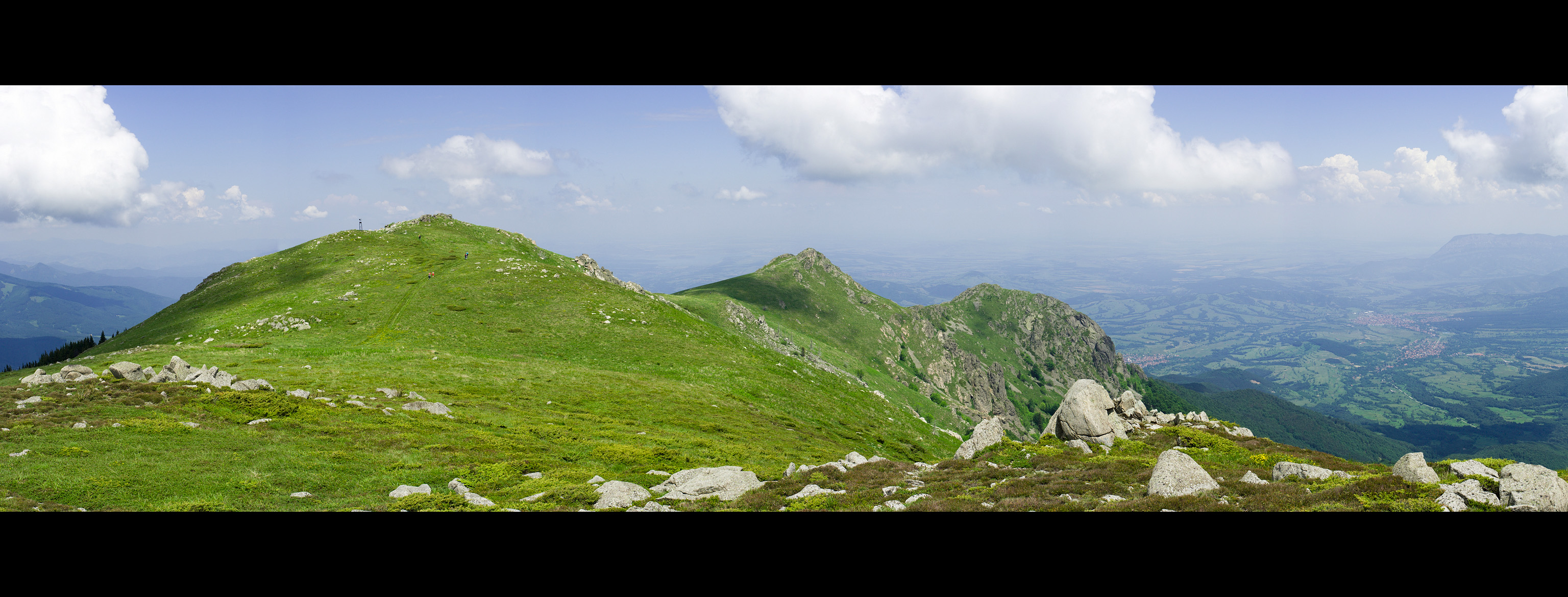 Todorini kukli peak, Stara Planina mntn, Bulgaria